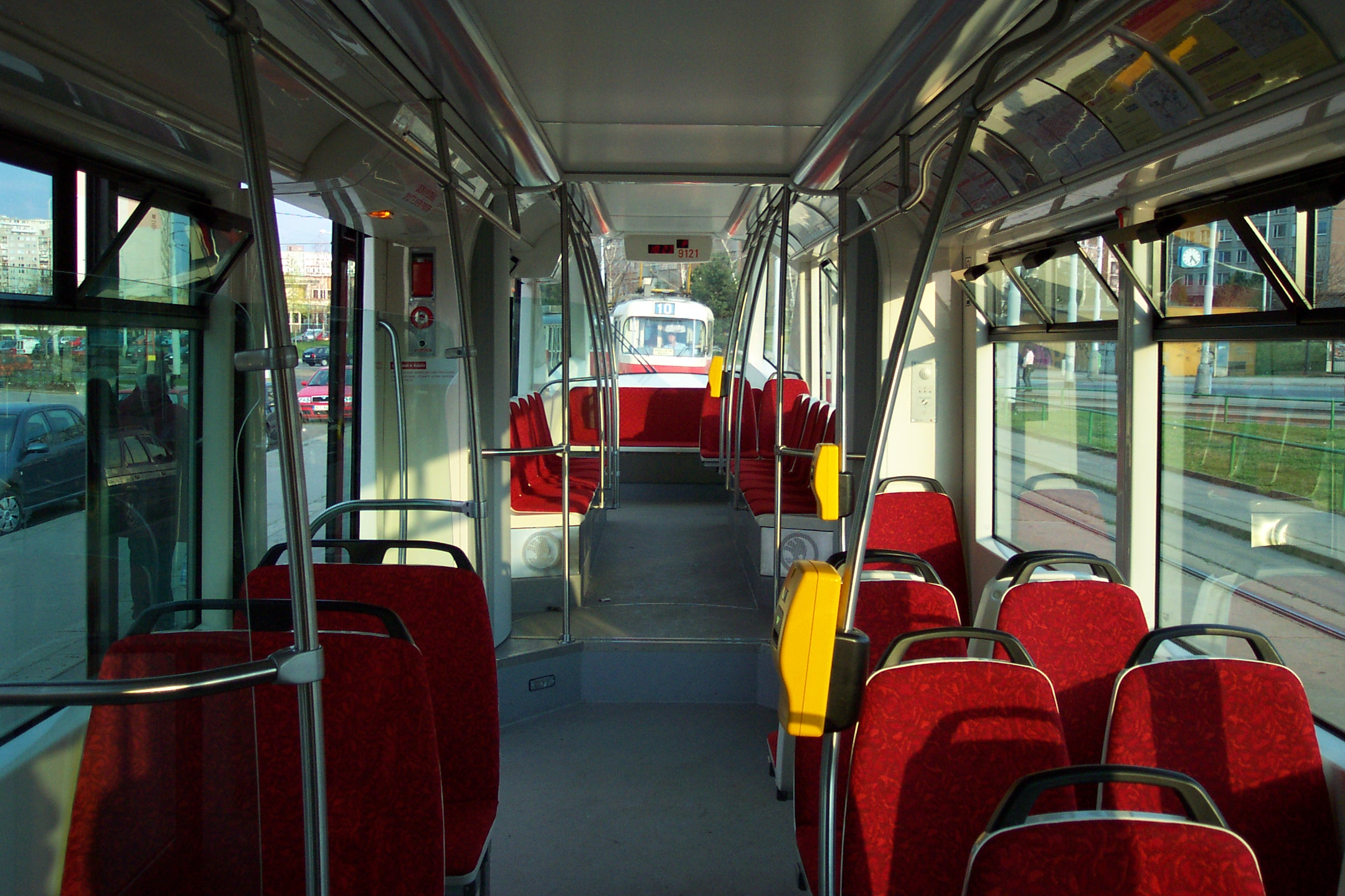 Řepy, interieur of 14T tram ev. number 9121